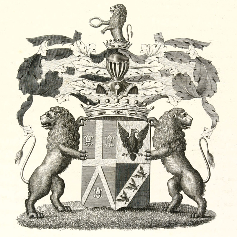 Coat of Arms of family Santi